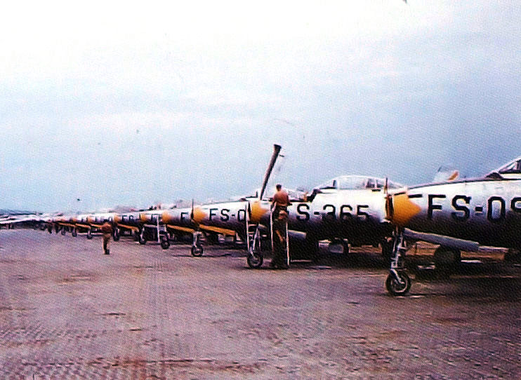 158th Fighter Squadron Tageu AB South Korea, June 1952. Republic F-84G-16-RE Thunderjet 51-10365 identifiable